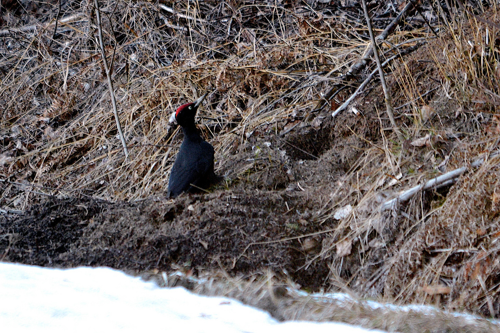 Dryocopus martius excavating ants nest, Muurla, Finland